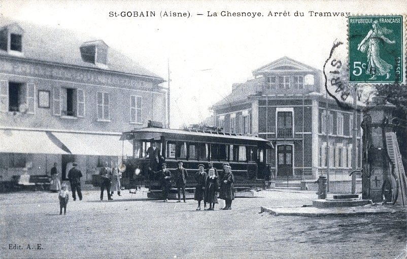 Old Tramway in Saint Gobain (Aisne, France)